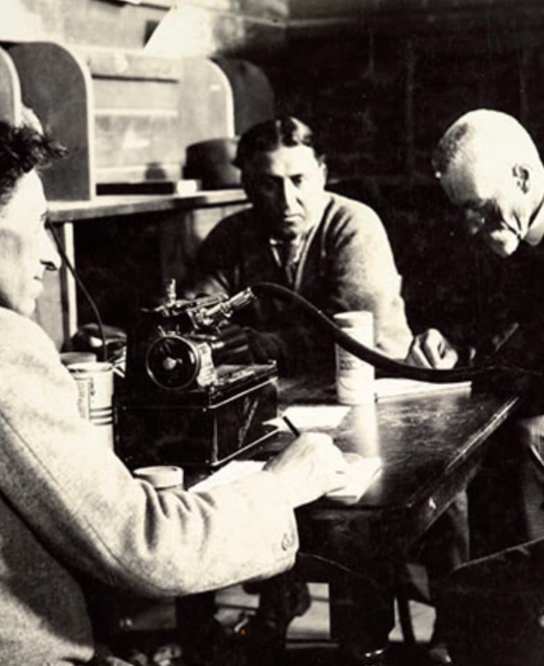 Photo of former Secretary of the Polynesian society and others